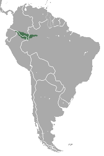 Lucifer Titi (Callicebus lucifer) range